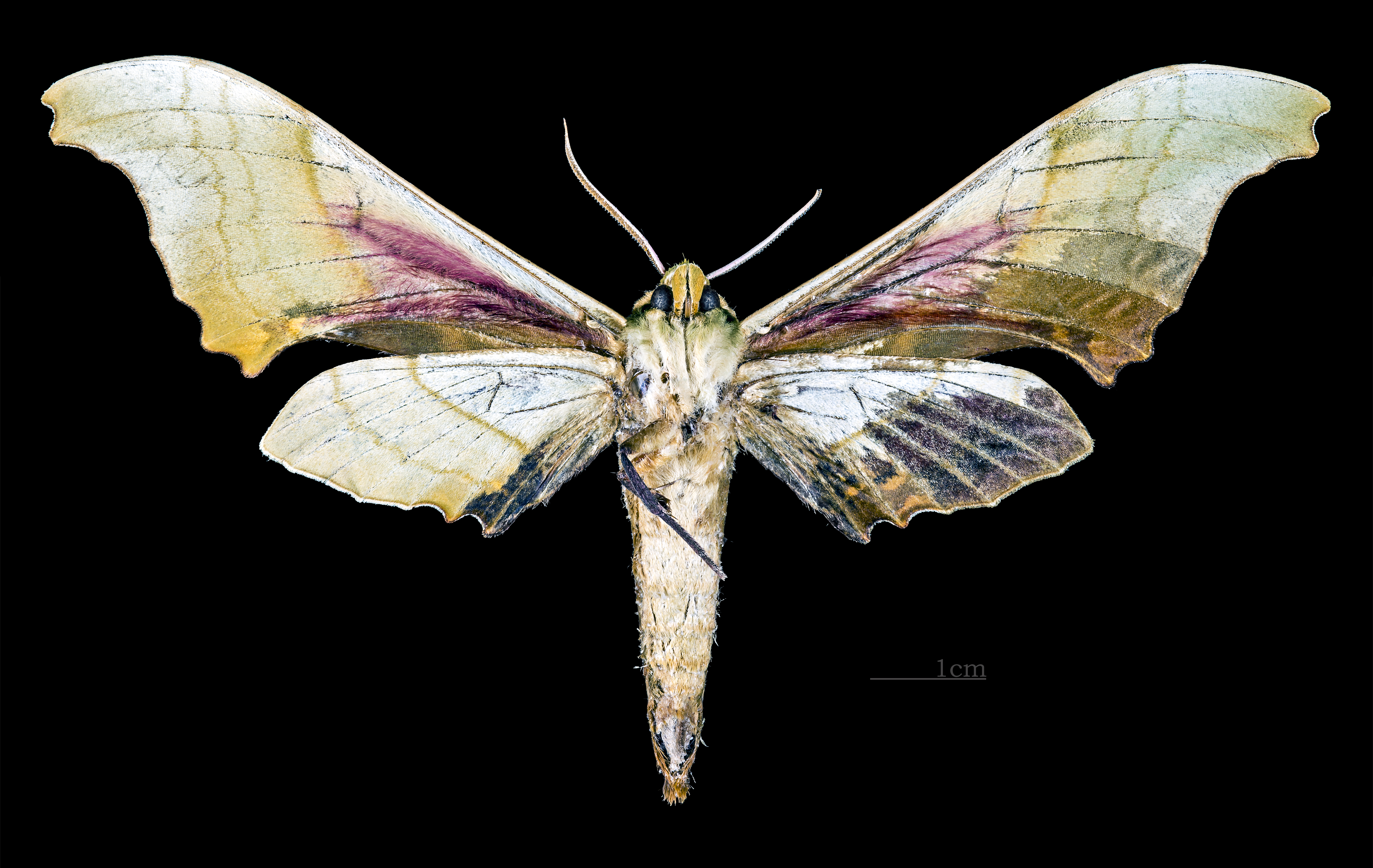 Adhemarius globifer - △ Ventral side Collection of the Mathematician Laurent Schwartz